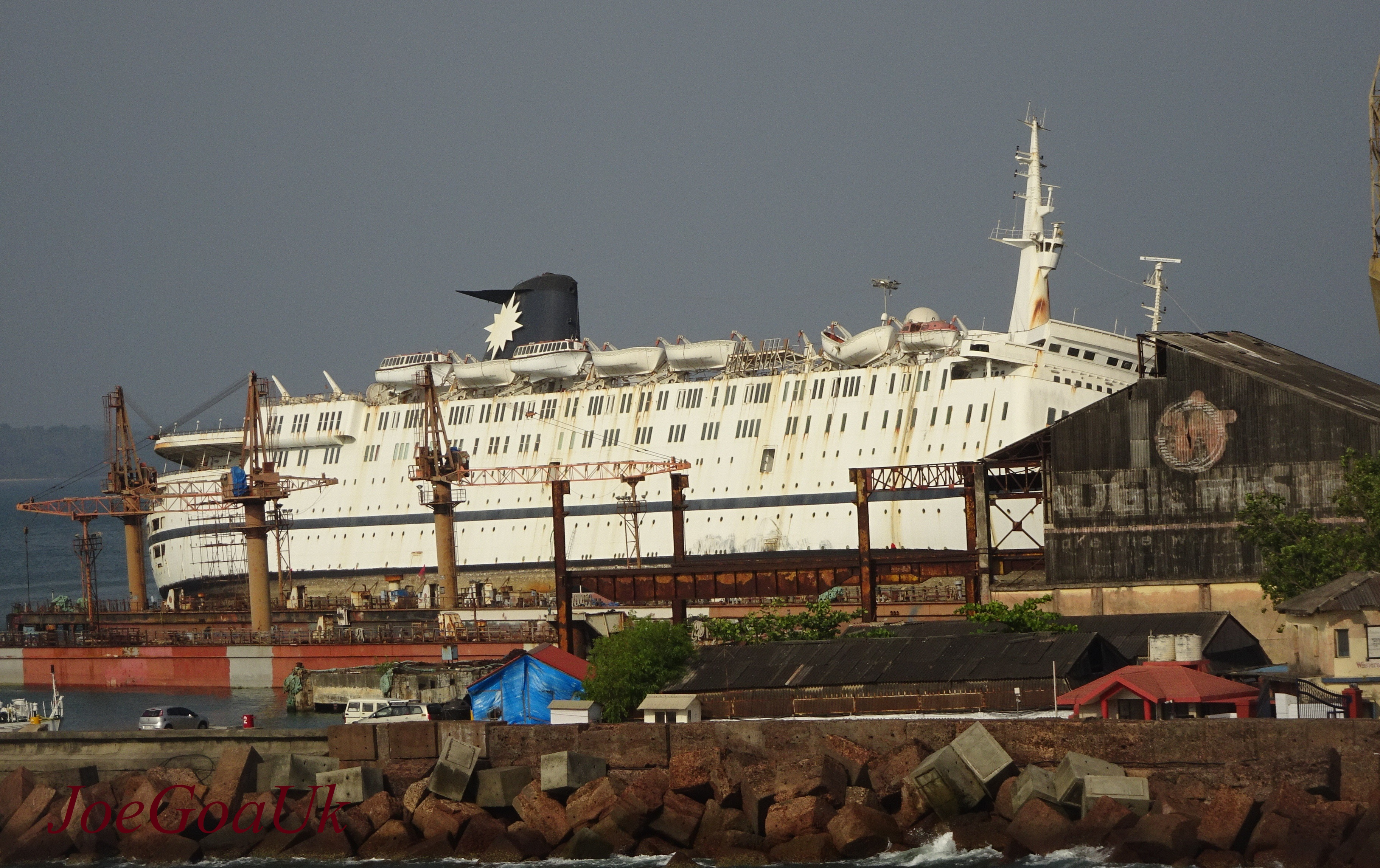 MV QING Sahara india ? dockyard since 9.1.14. Tilted ship western India Shipyard Ltd MPT Harbour Momugao Port earlier pic of 2016 from the nearby fort Latest video 5.5.2018 Video july 2016 MV QING seen missing since early May 2019 after 5.5 years